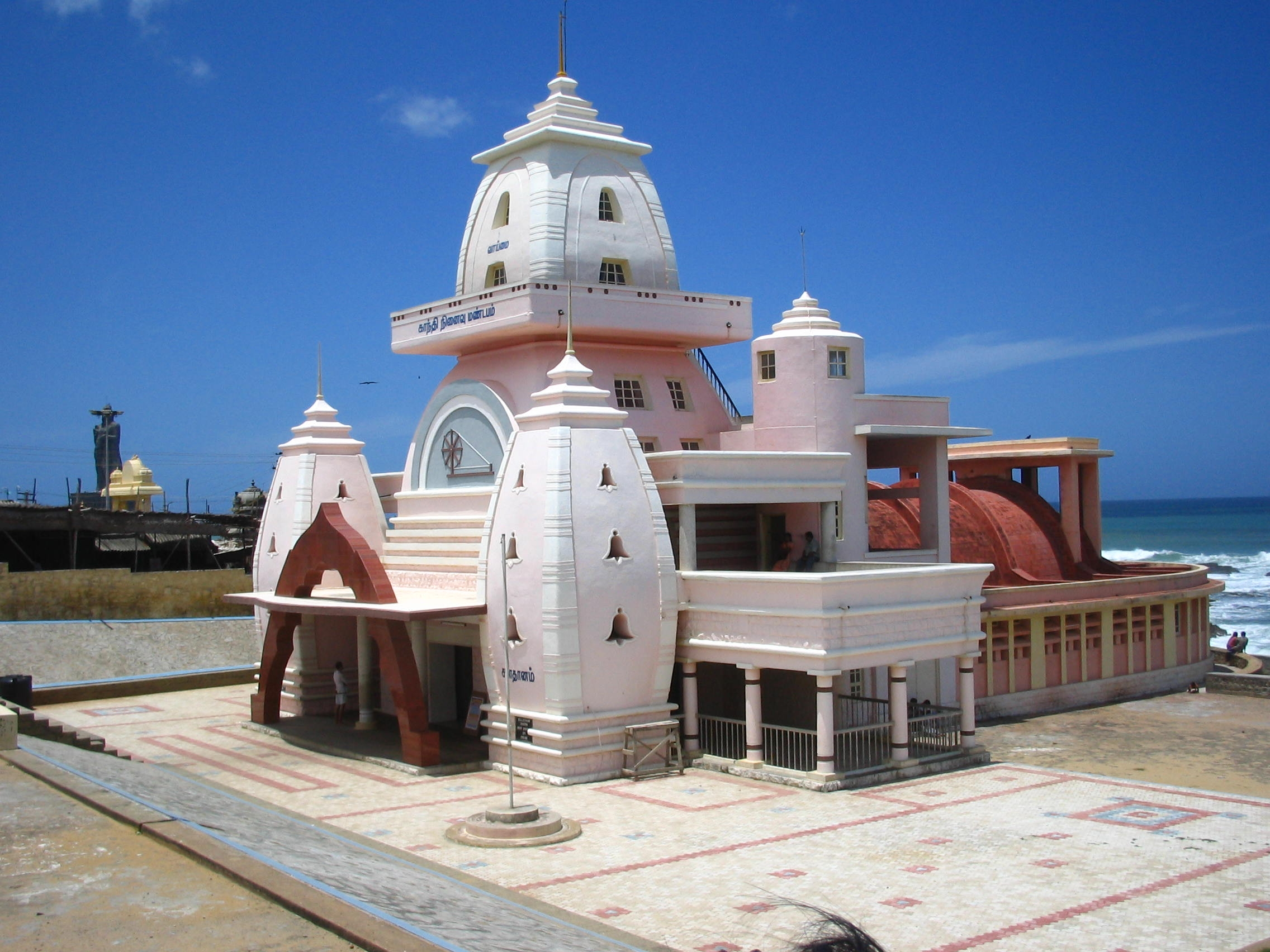 Gandhi memorial, Kanyakumari.